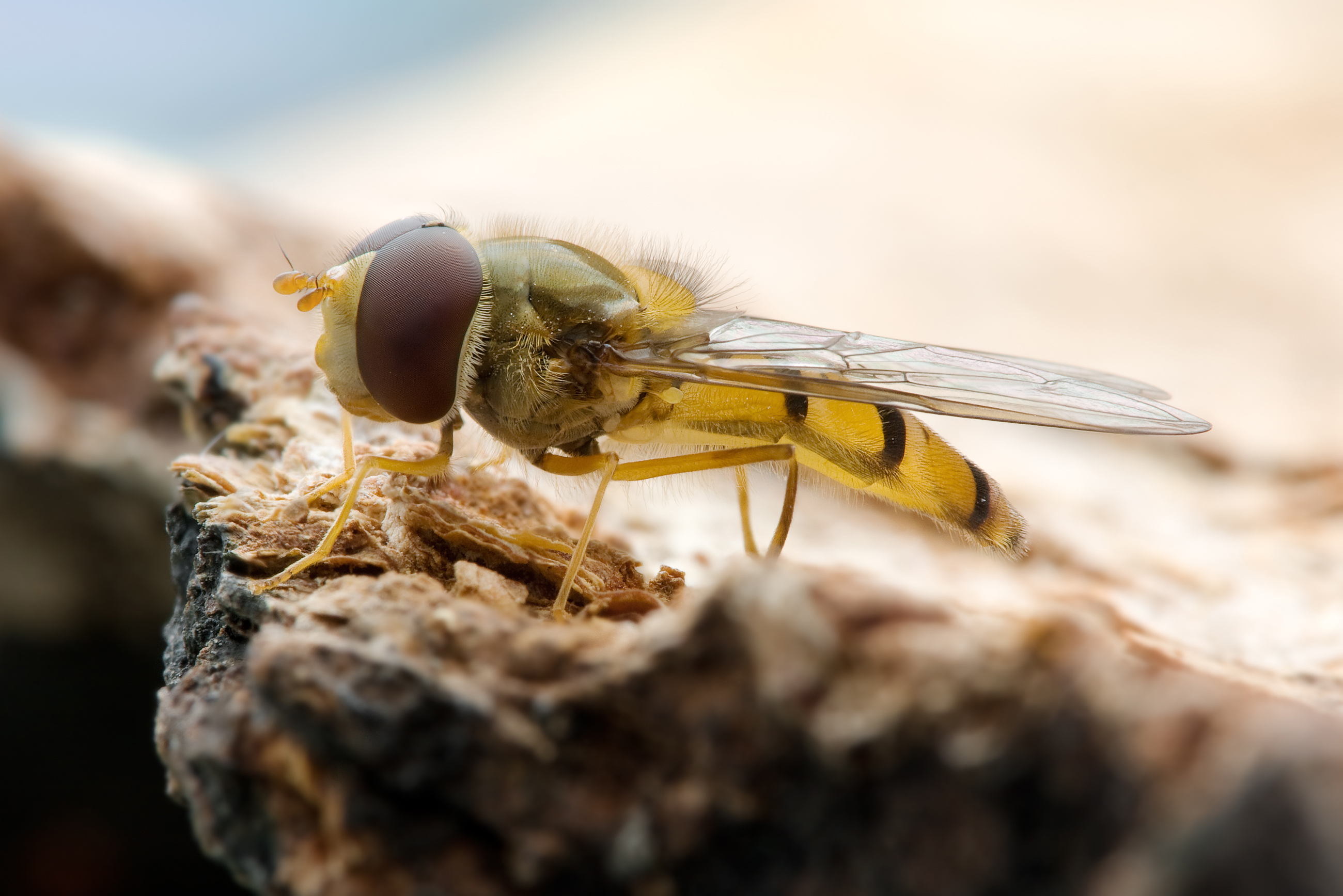 Episyrphus balteatus, usually called the Marmalade fly, is a relatively small hoverfly (9–12mm) of the Syrphidae family, widespread throughout all continents.